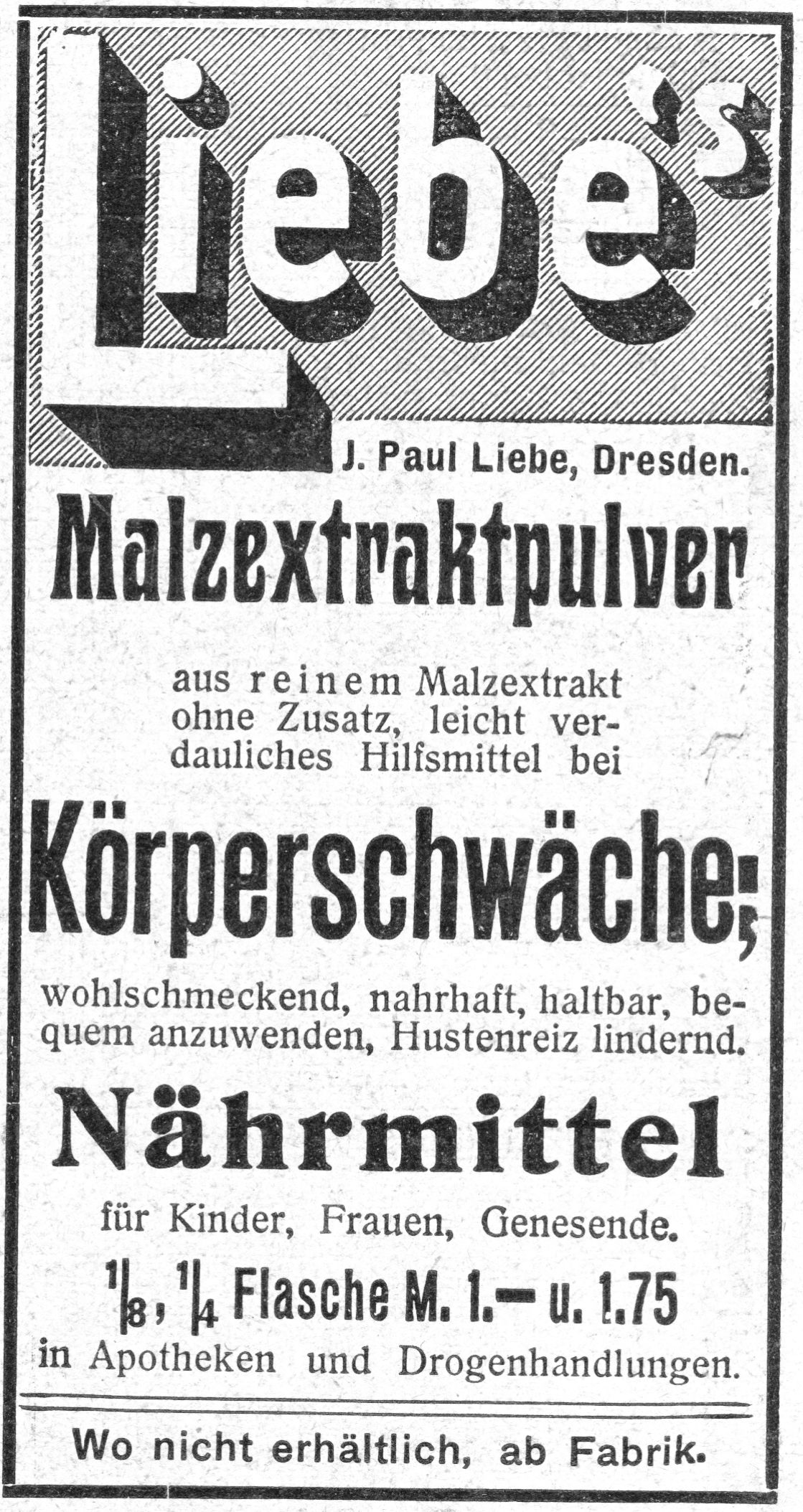 Advertisement of J. Paul Liebe, Dresden